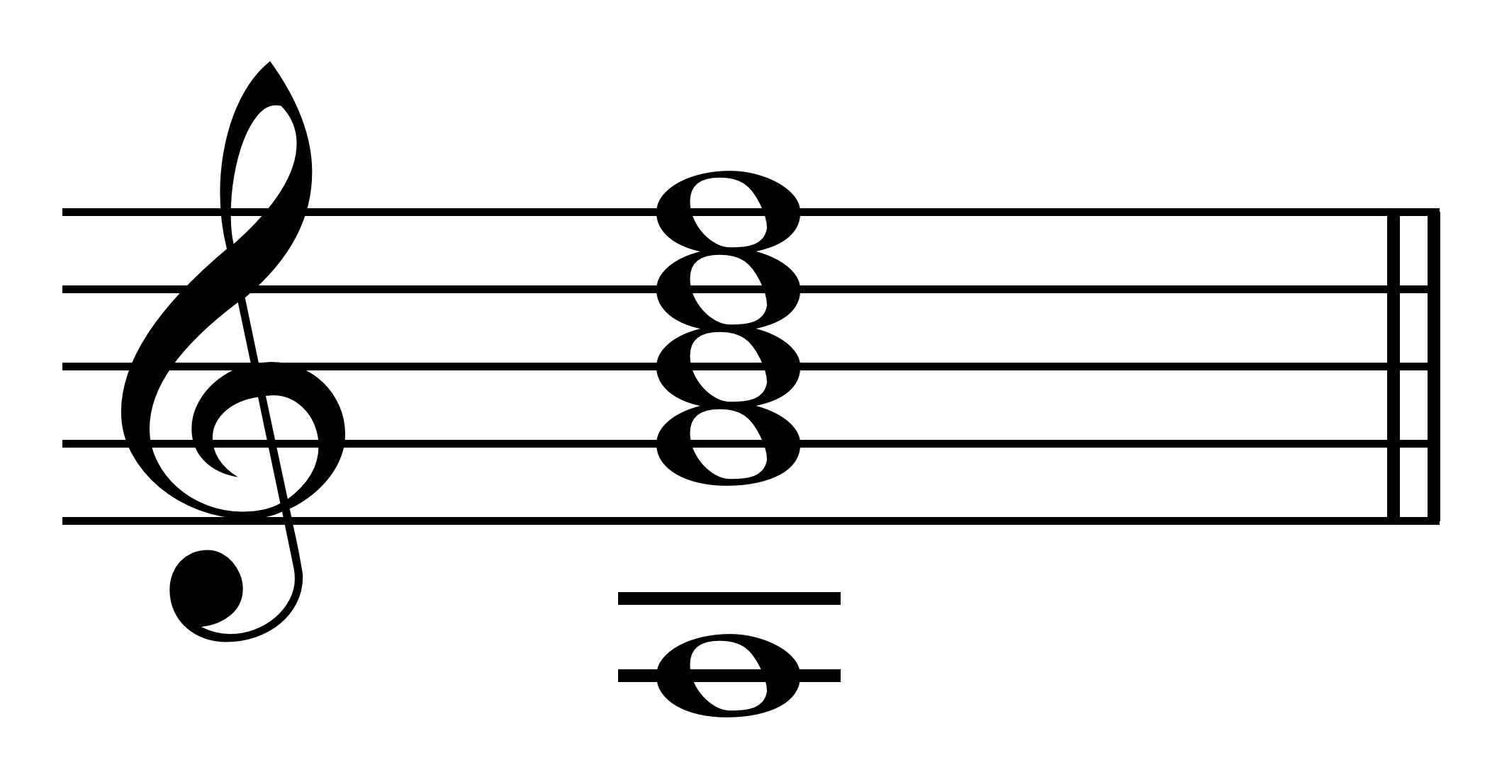 Fifteenth chord from Marpurg on A: A,(C,E,)G,B',D',F',(A"). Resolves to tonic: C,E,G,C'.